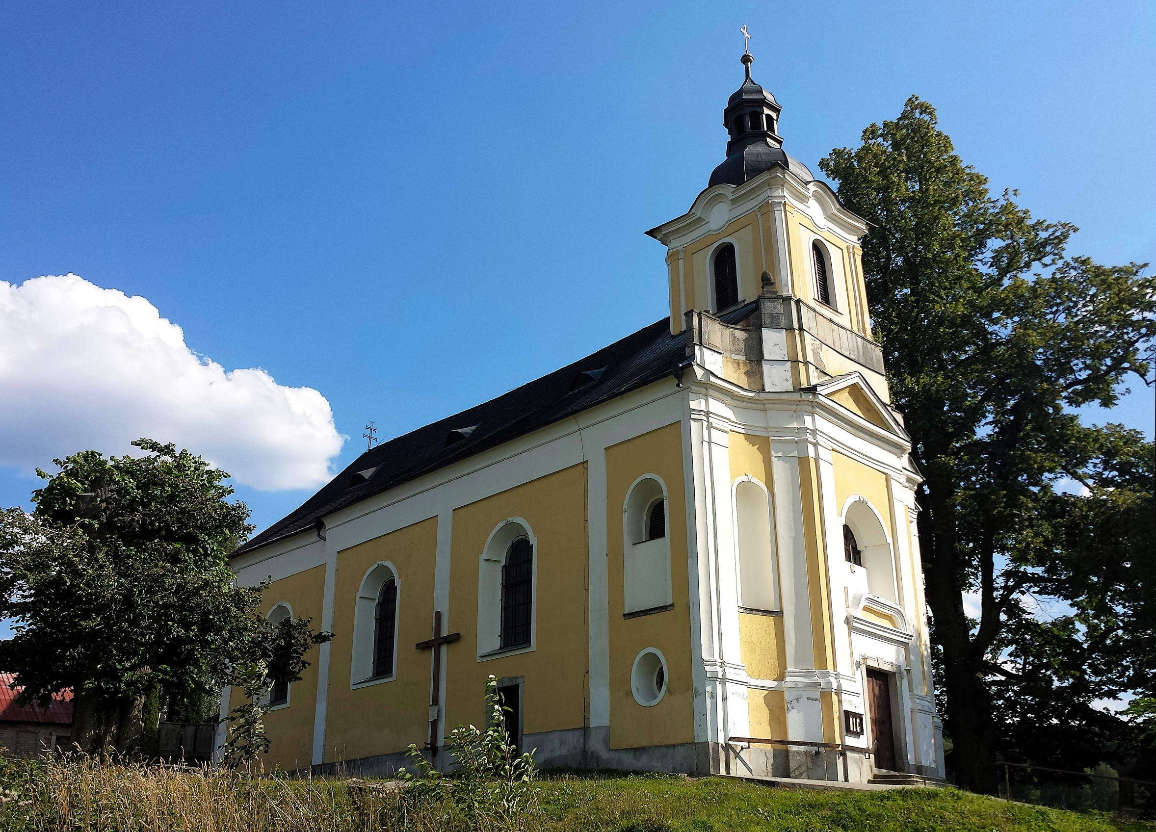 Church of Saint John of Nepomuk in Nemanice (Plzeň Region, Czechia).